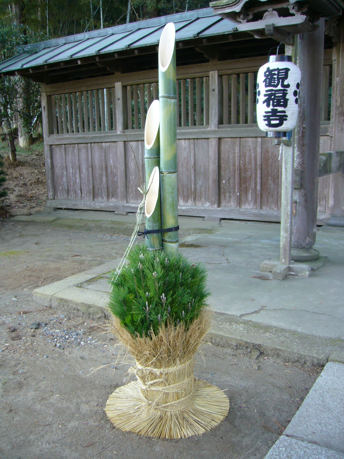 Gate with pine branches for the New Year,kadomatsu (kanto),katori-city,japan